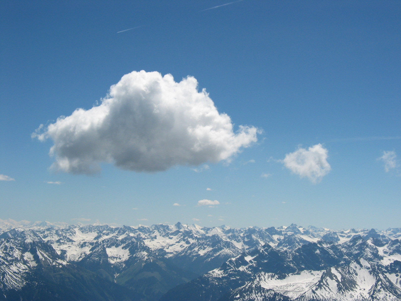 Cumulus cloud above Lechtaler Alps, Austria.